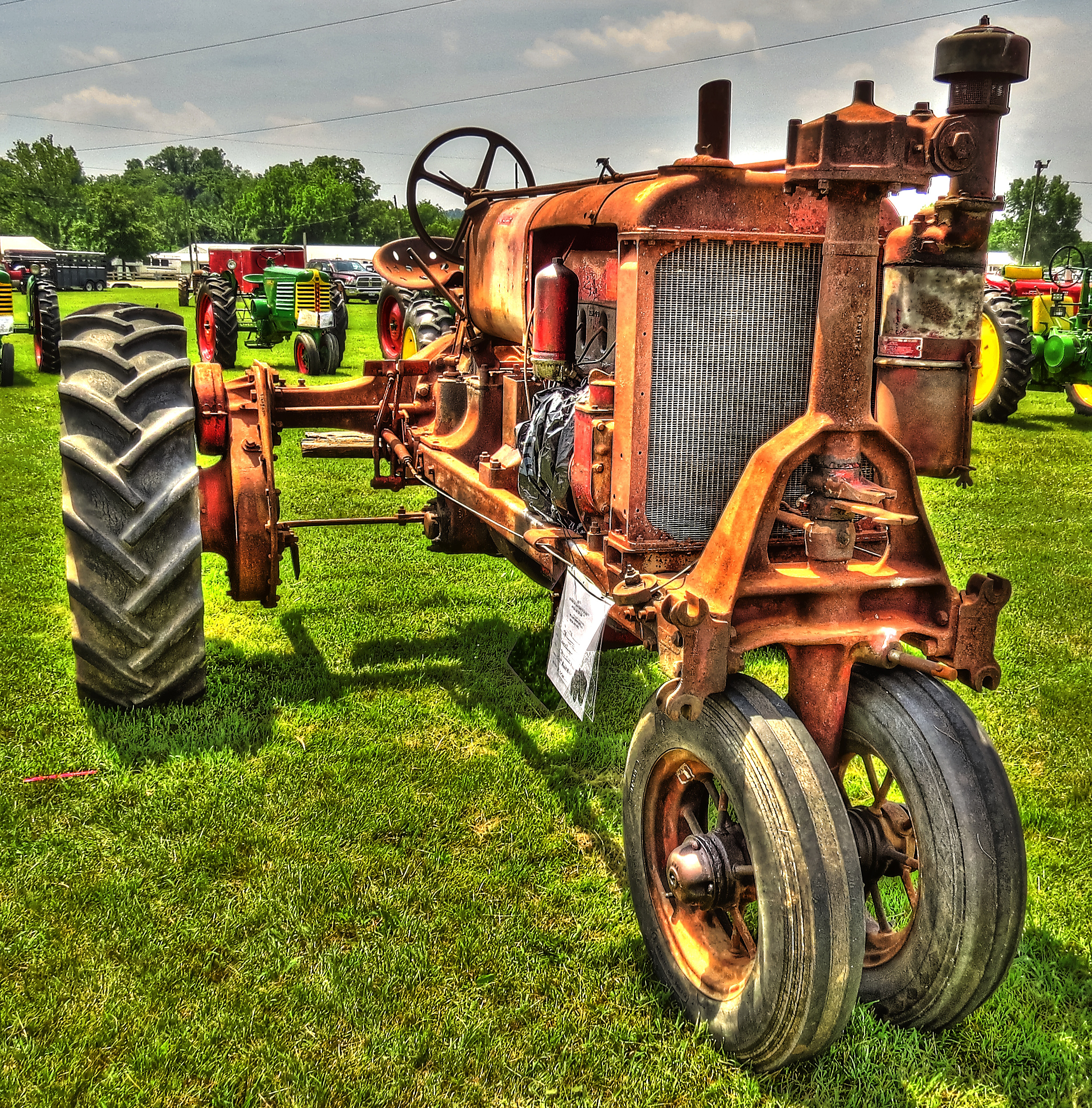 Seen at the Fourth Annual Tractor & Machinery Show on the Pike County, Ohio fairgrounds and owned by Jeff Barker, Piketon.